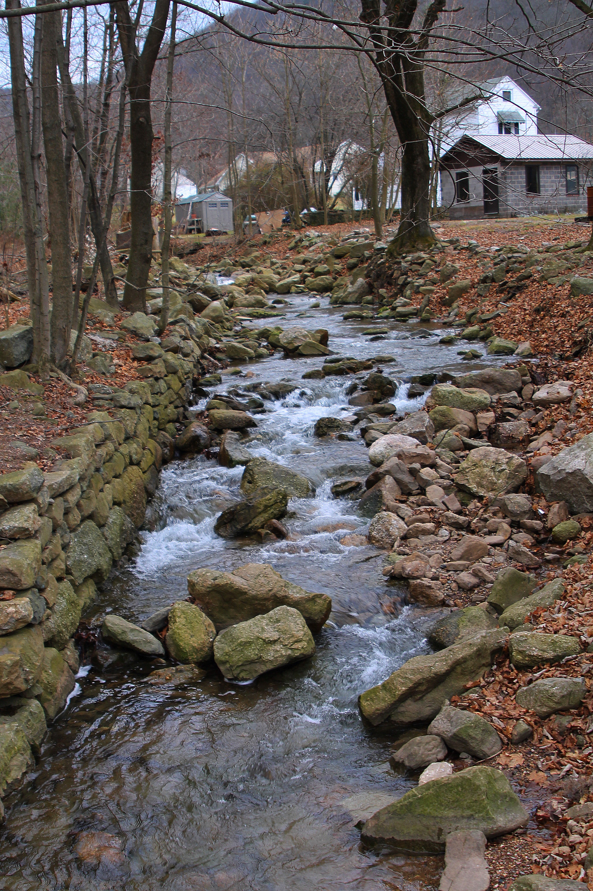 Rattling Run, the only named tributary of Little Mahanoy Creek flowing rapidly over rocks on the outskirts of Gordon, Pennsylvania.